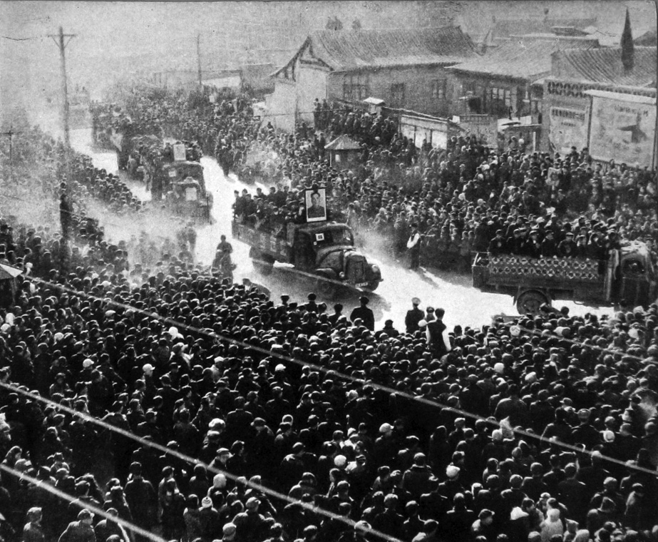 Sending officials to the countryside.